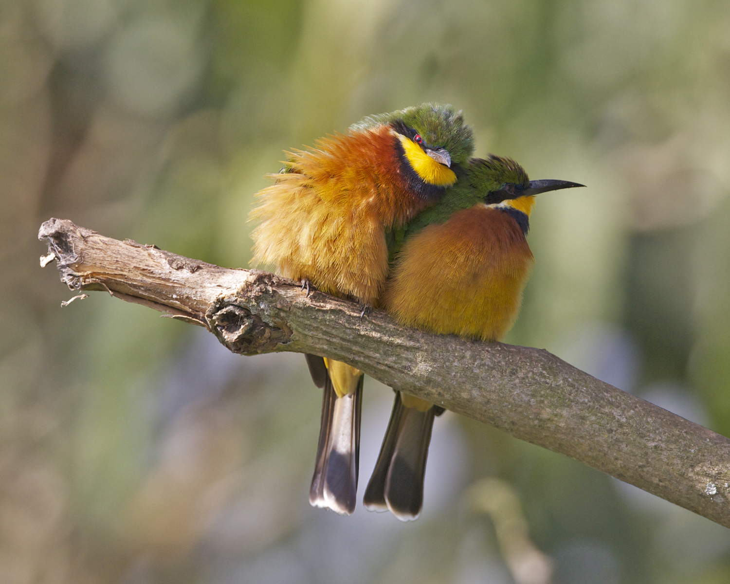 The next posting is the climax of all this and preceeding display activity. Have reason to believe female is the bird on the right. Cinnamon-chested Bee-eater Merops oreobates Ngorongoro Conservation Area, Tanzania 13th. September 2012 CF2P8964